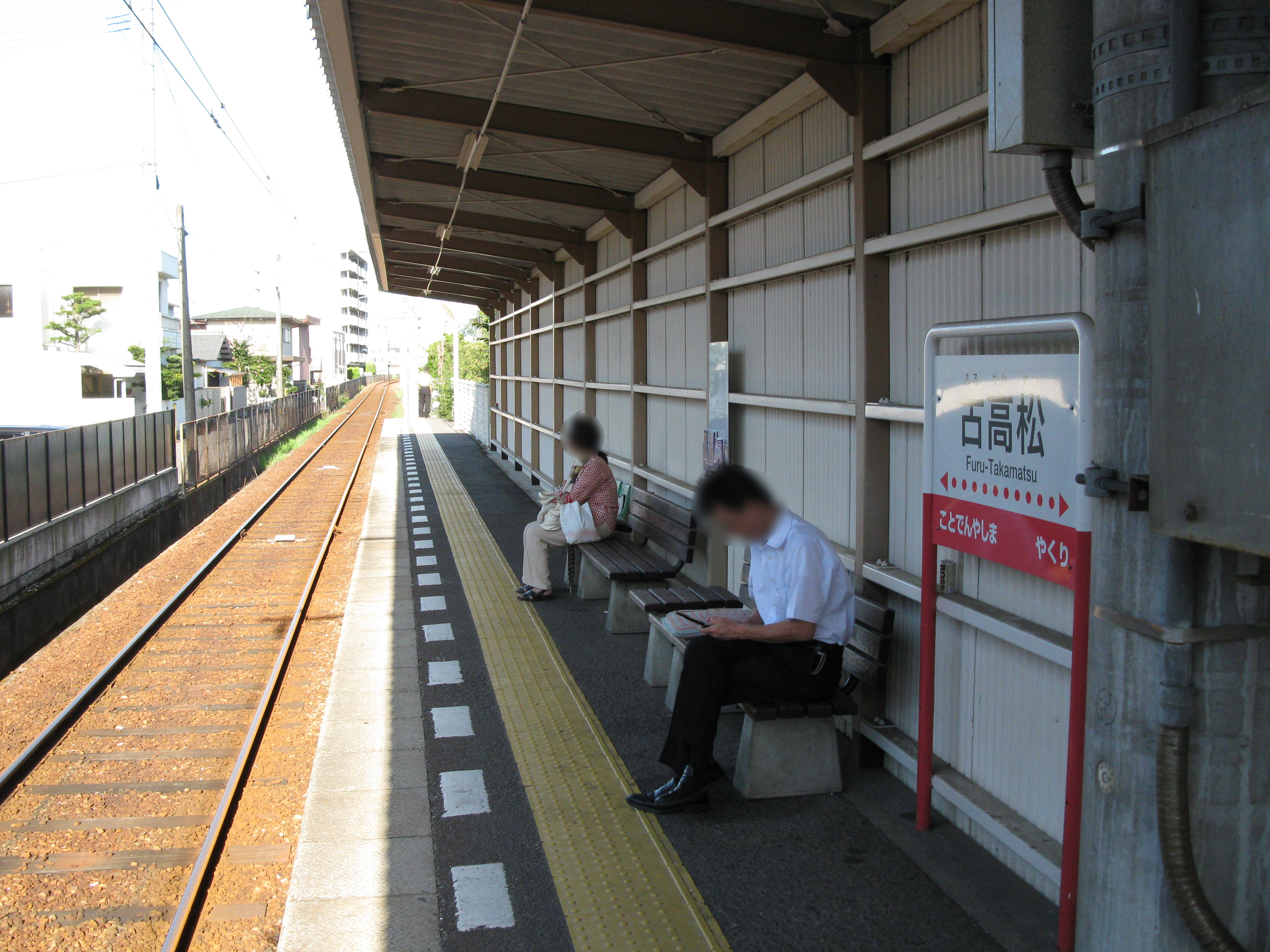 Furutakamatsu Station platform (Takamatsu-Kotohira Electric Railroad(Kotoden) Shido Line)